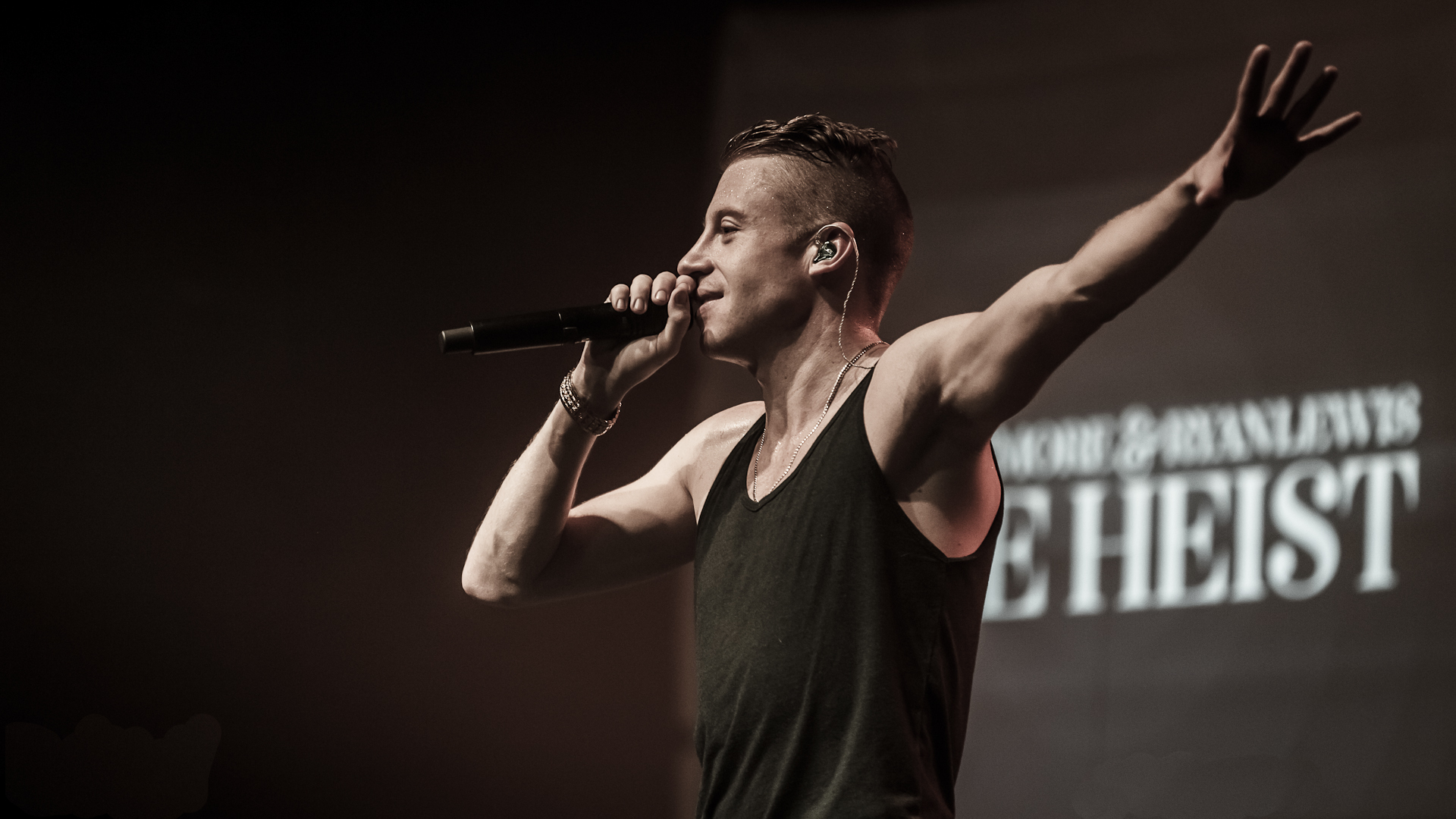 Macklemore- The Heist Tour Toronto Nov 28. Photography shot by drew.